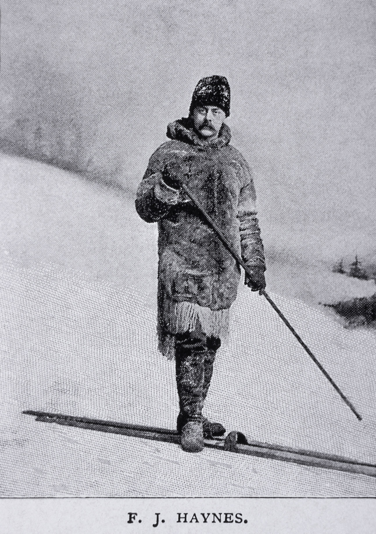 Frank J. Haynes during 1887 Winter expedition, Yellowstone National Park